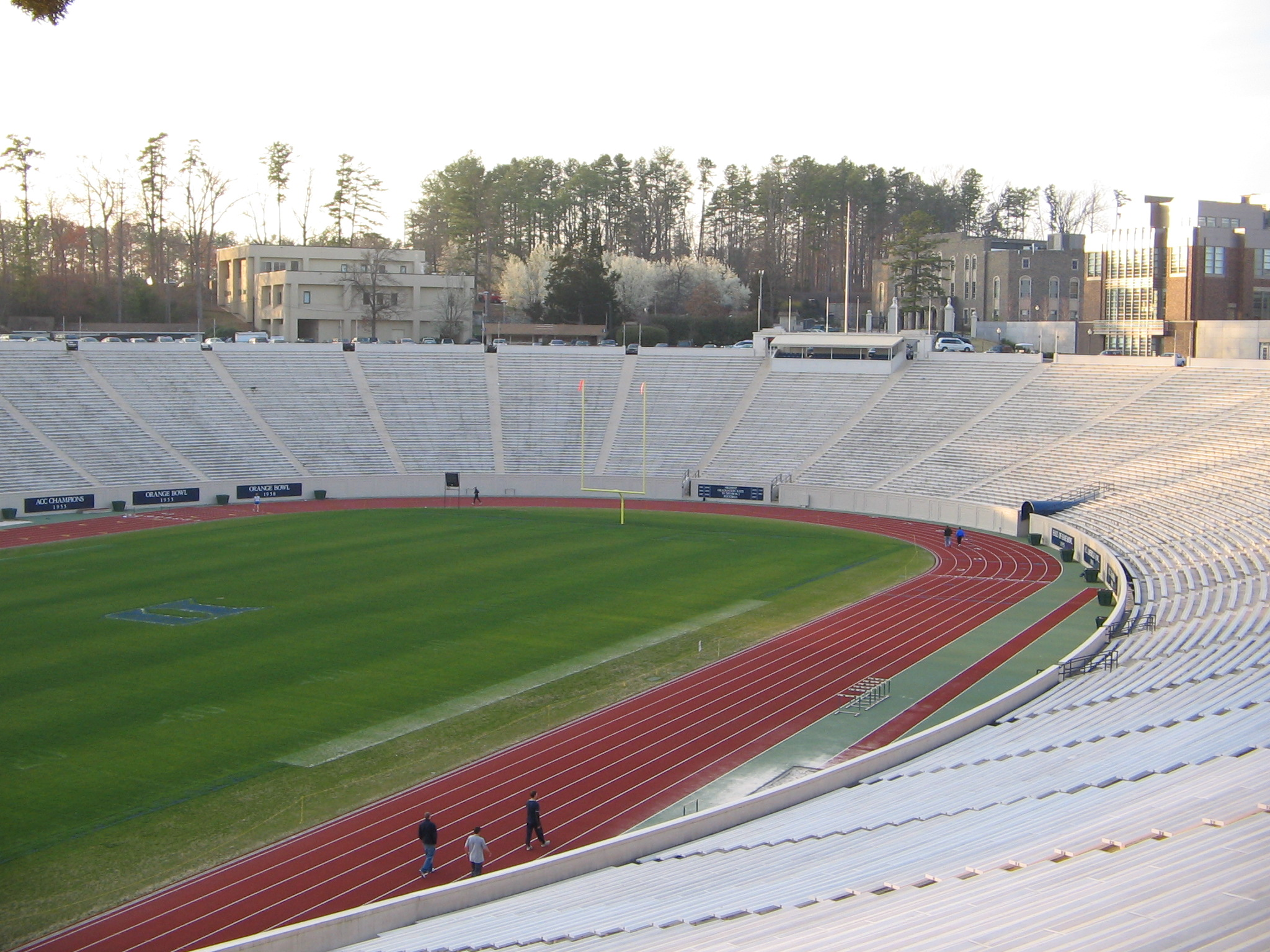 uploaded by gregw824 on english wiki; GFDL